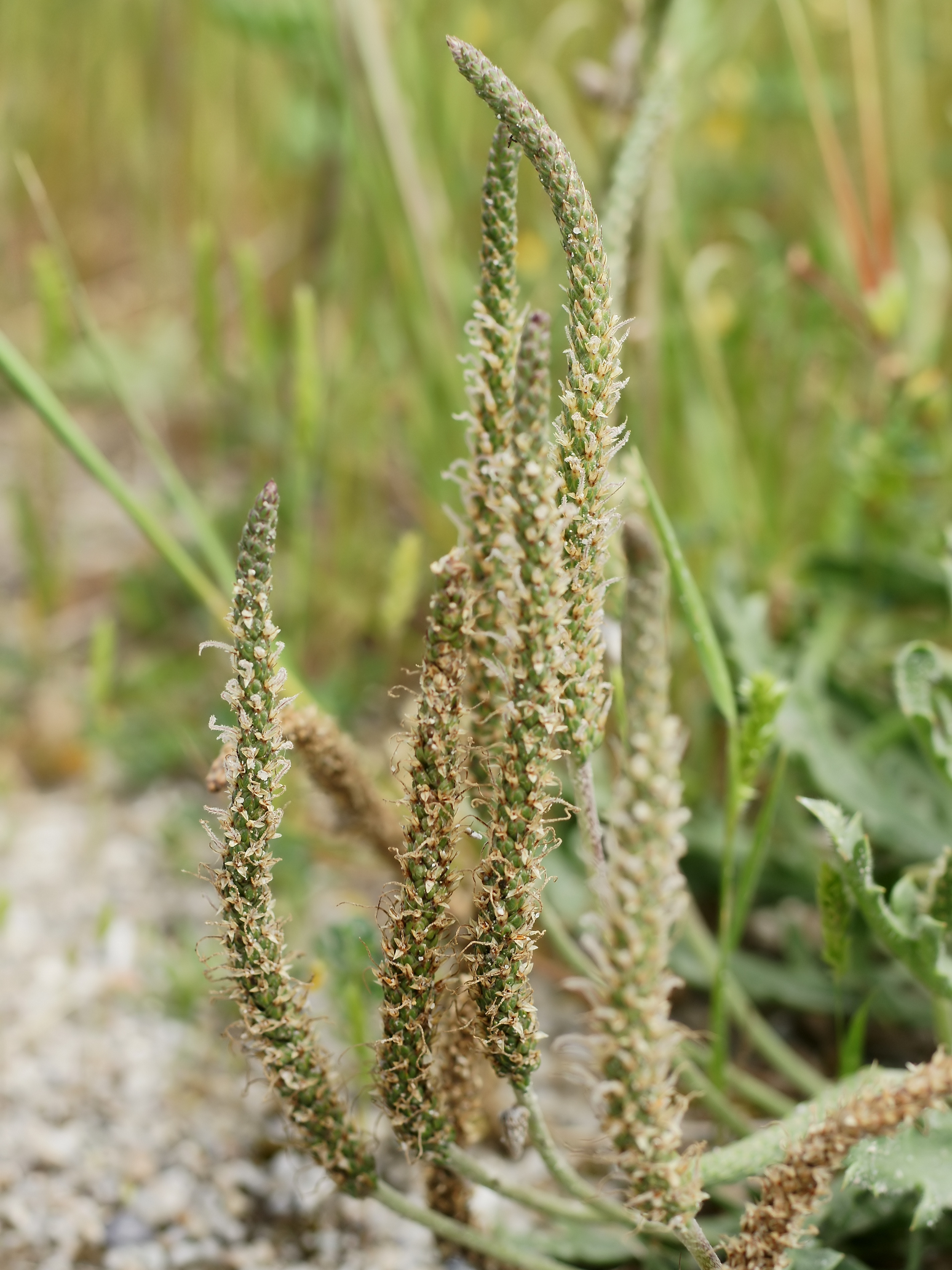 Buckshorn Plantain at Torre Grande, Sardinia, Italy.